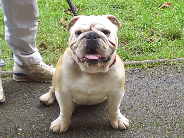 "Churchill", Tekana's neighbour's Bulldog.